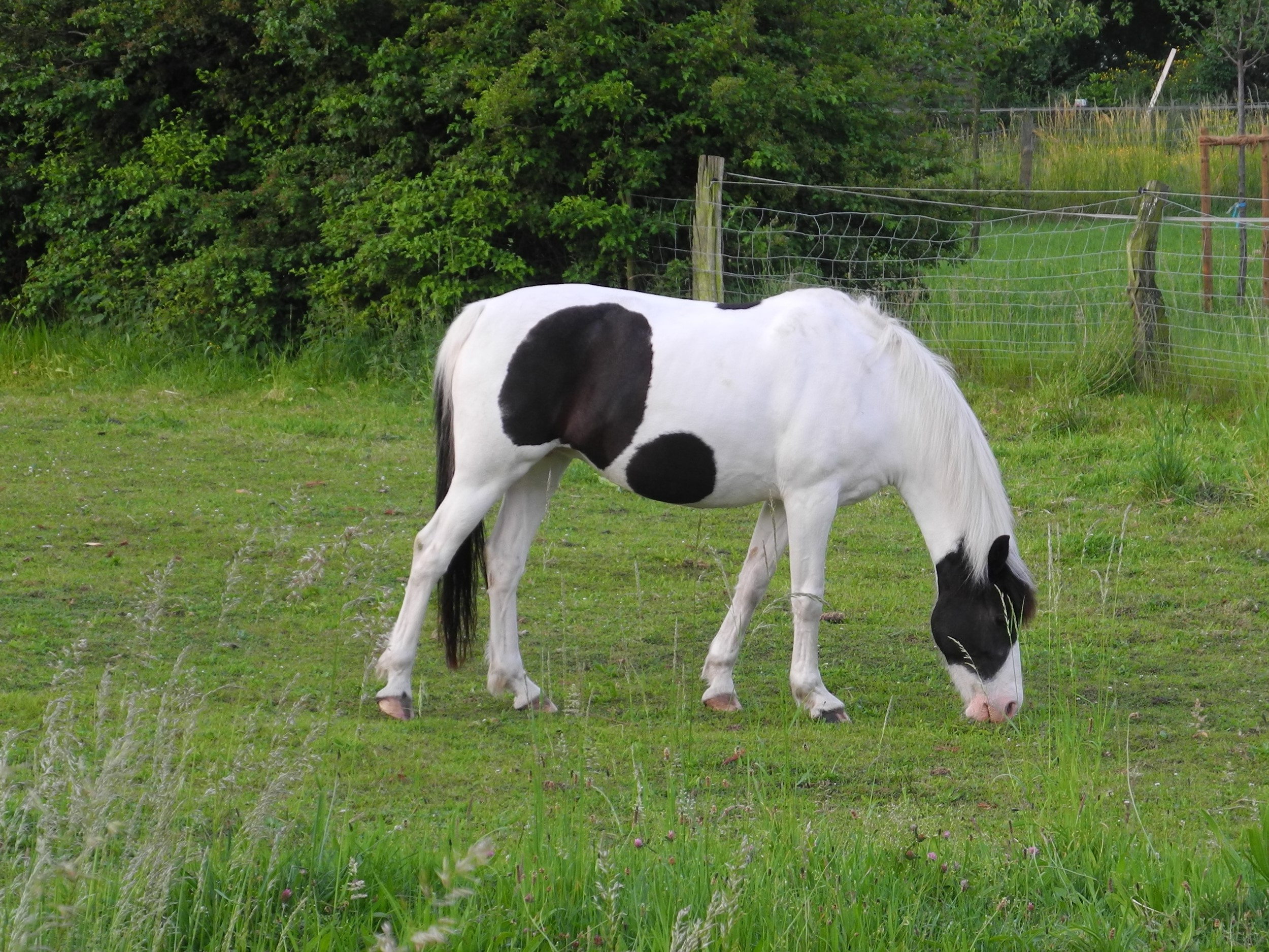 Just a random horse early in the morning